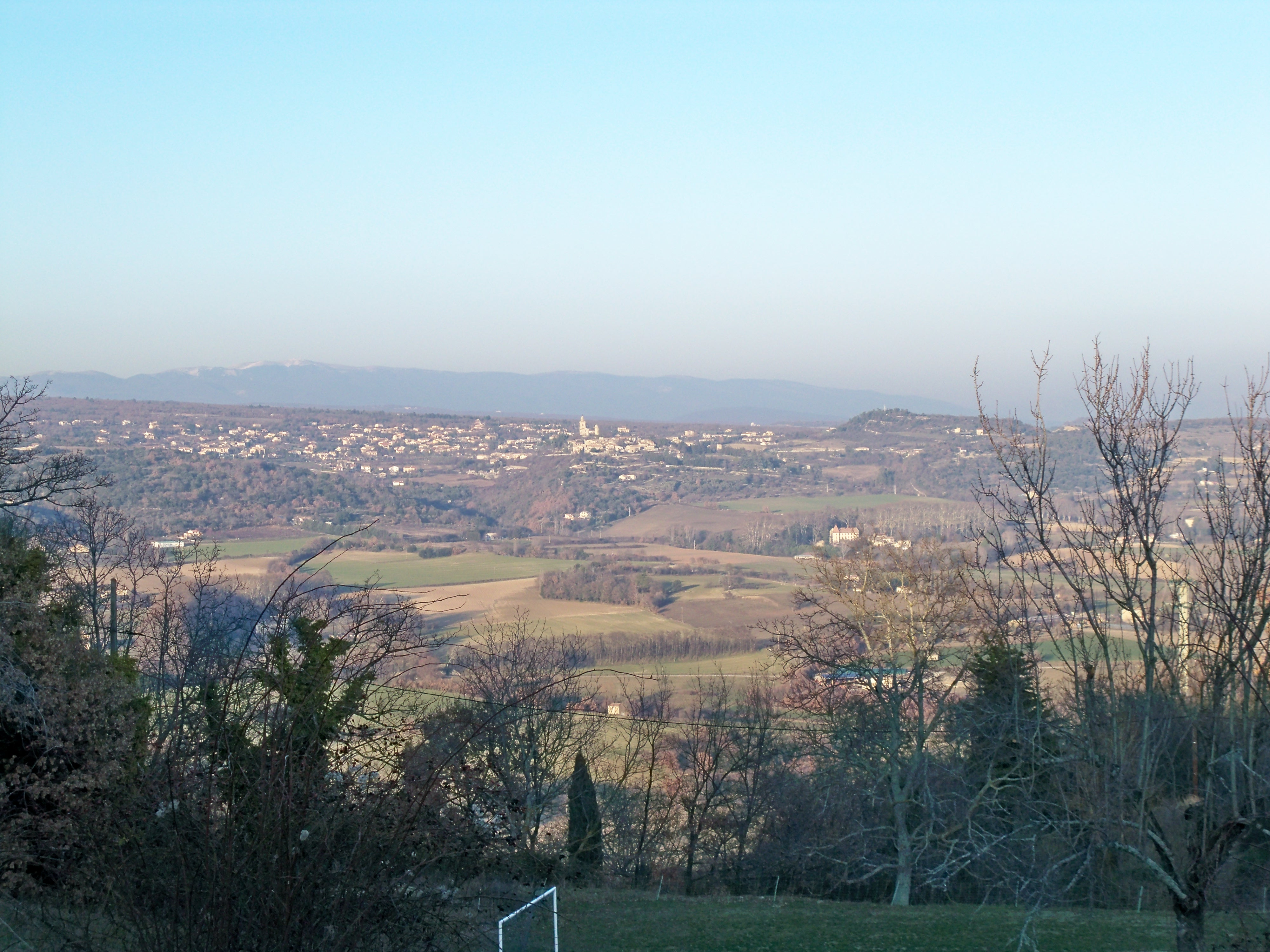 Landscape around Montjustin (04), France